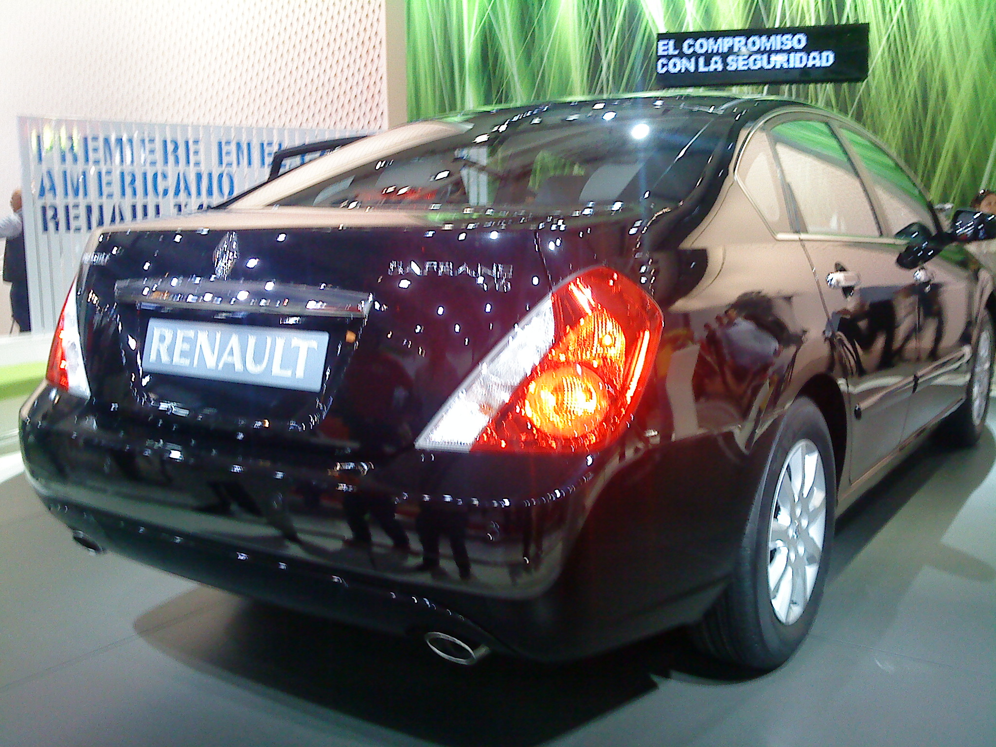 The second generation Renault Safrane at the 2008 SIAM.